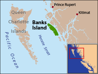 This is a locator map of Banks Island. I, Pfly, made it with ArcGIS, Adobe Illustrator, and Adobe Photoshop. The coastline data is from the Digital Chart of the World.